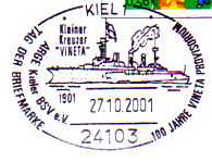 First day jubilee cover stamp in honor of 100-anniversary of Vineta provisorium, Kiel, 2001